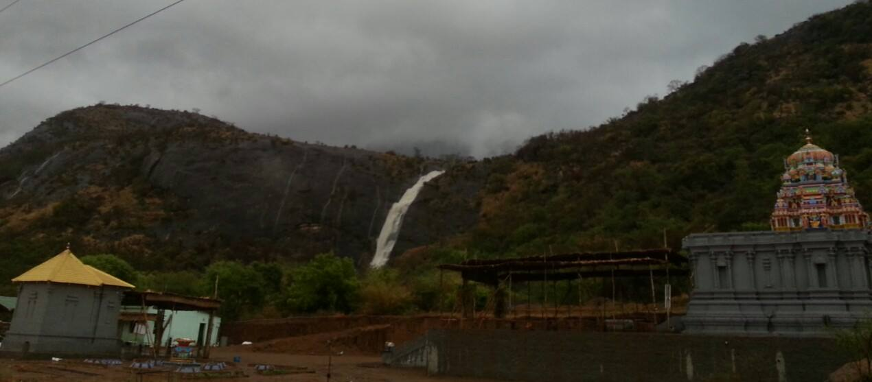 Aathmanathavanam